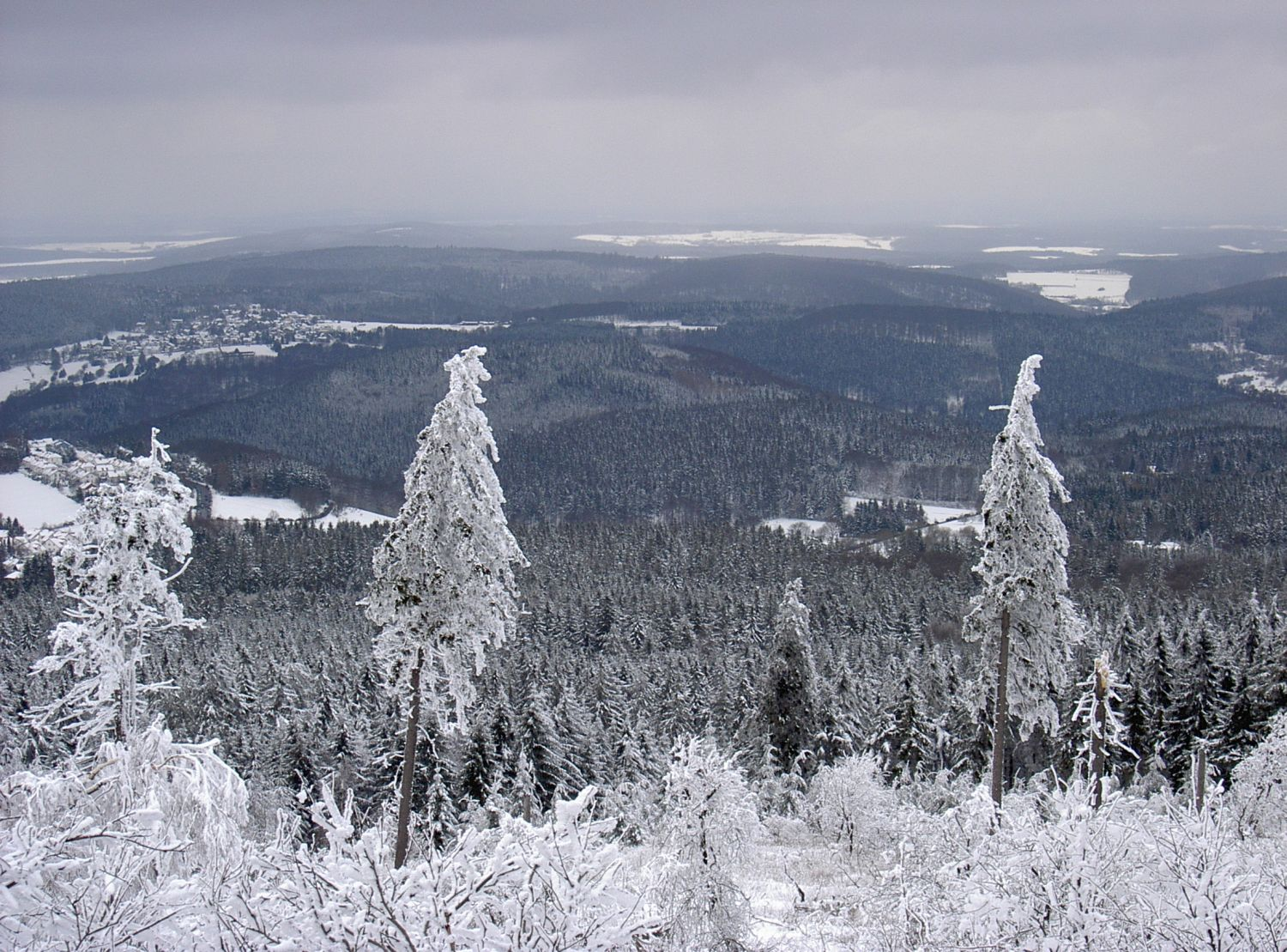 Image from the Grossen Feldberg upon the Taunus